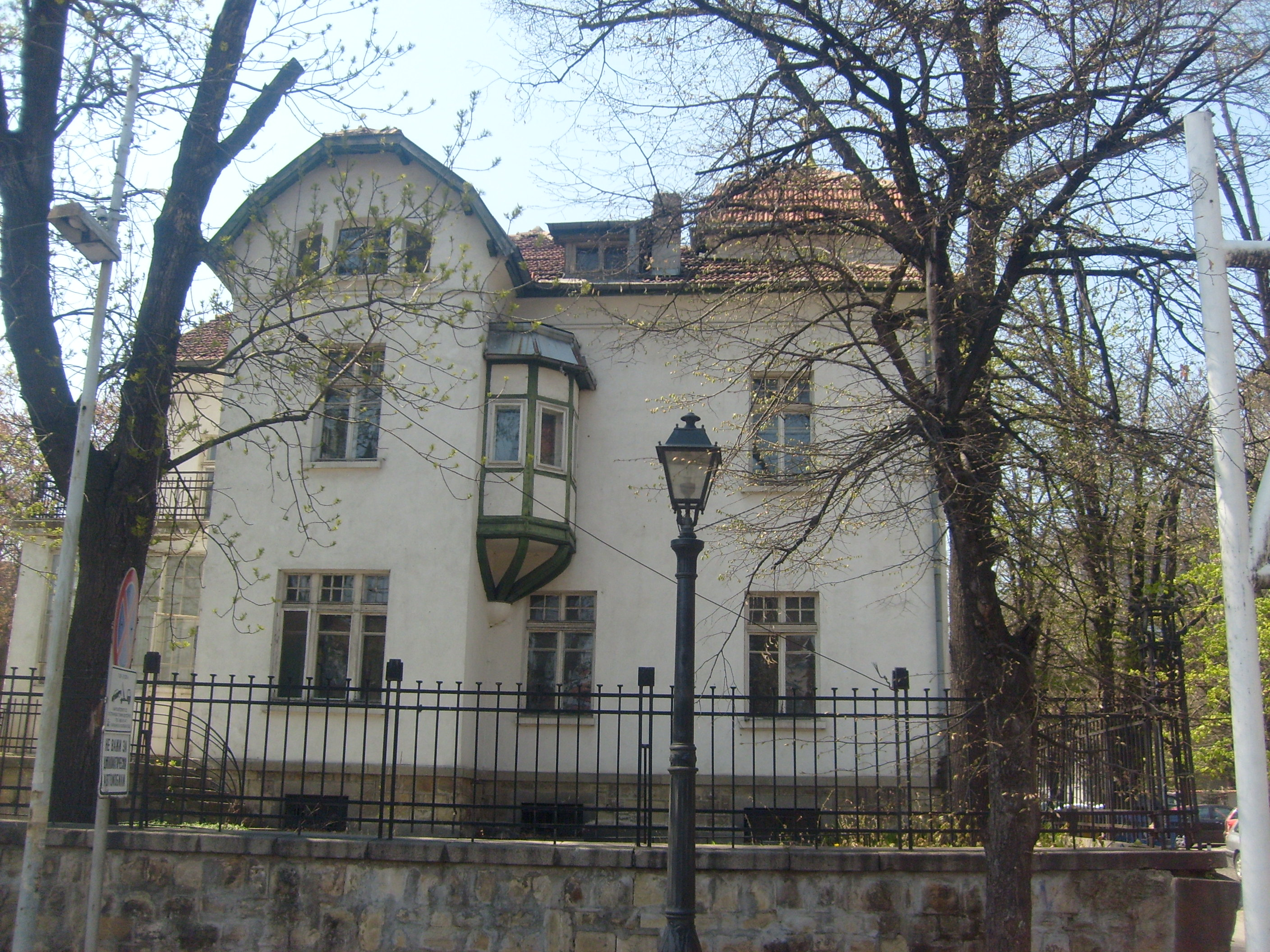 Old house on Shipka Street in Sofia, Bulgaria